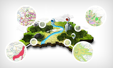 Geoportál hl. m. Prahy